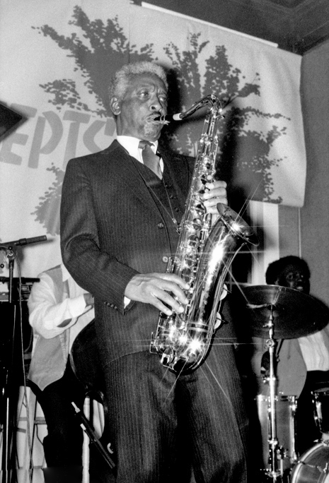 Teddy Edwards at Koncepts Kultural Gallery, Oakland CA 1980s. Photo: Brian McMillen /